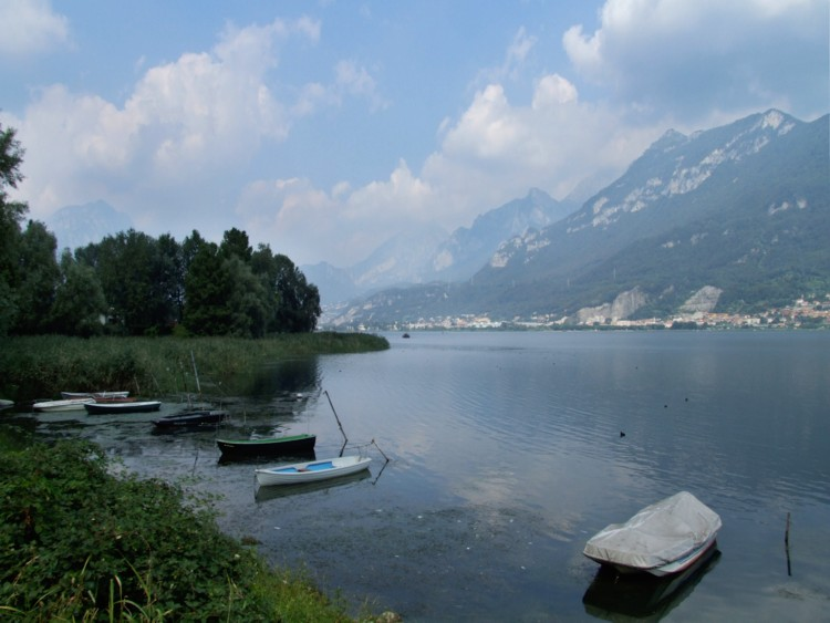 Lago di Garlate seen from Garlate Picture taken by user Idéfix , august 23, 2006